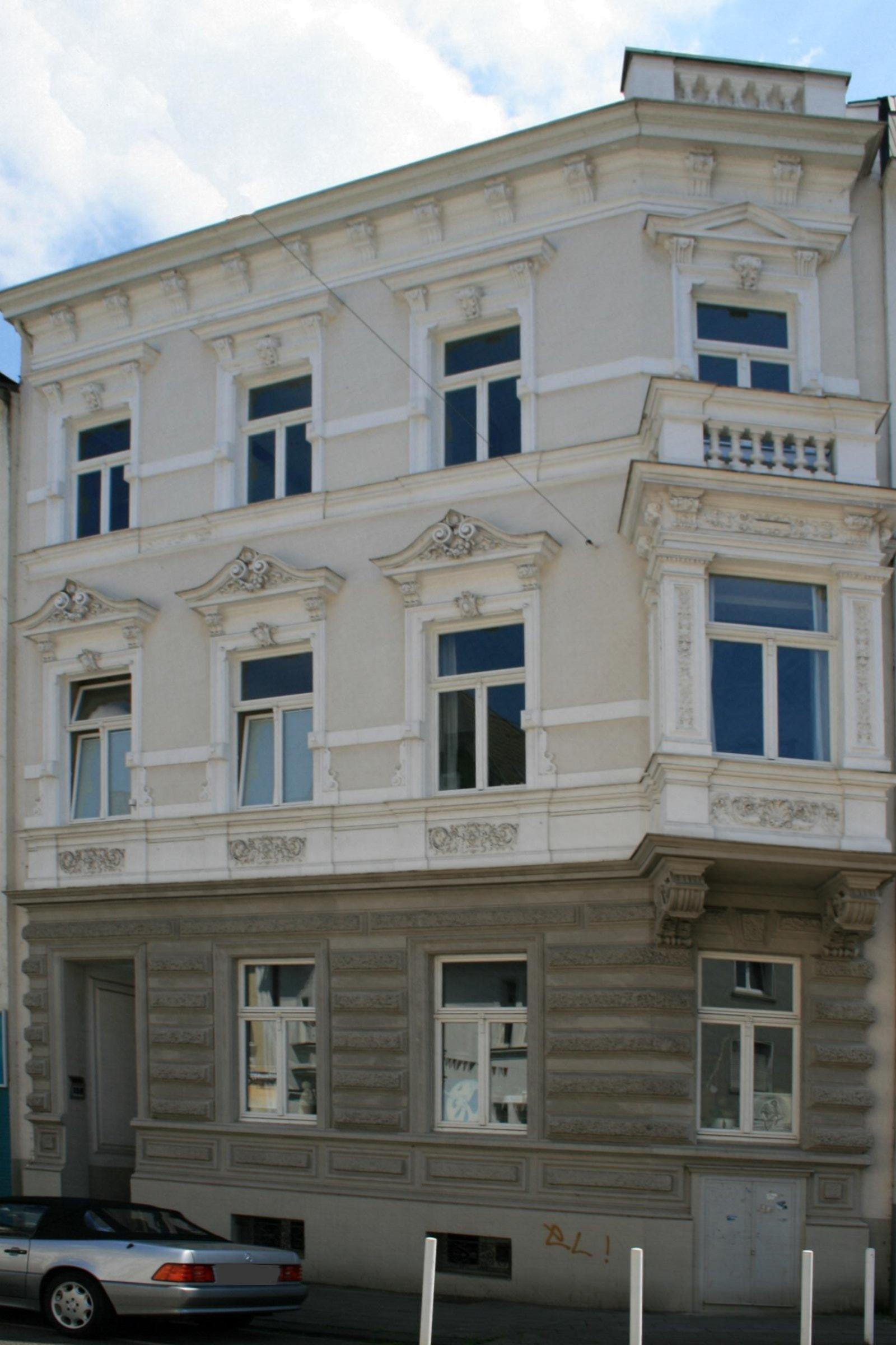 Cultural heritage monument No. K 072 in Mönchengladbach